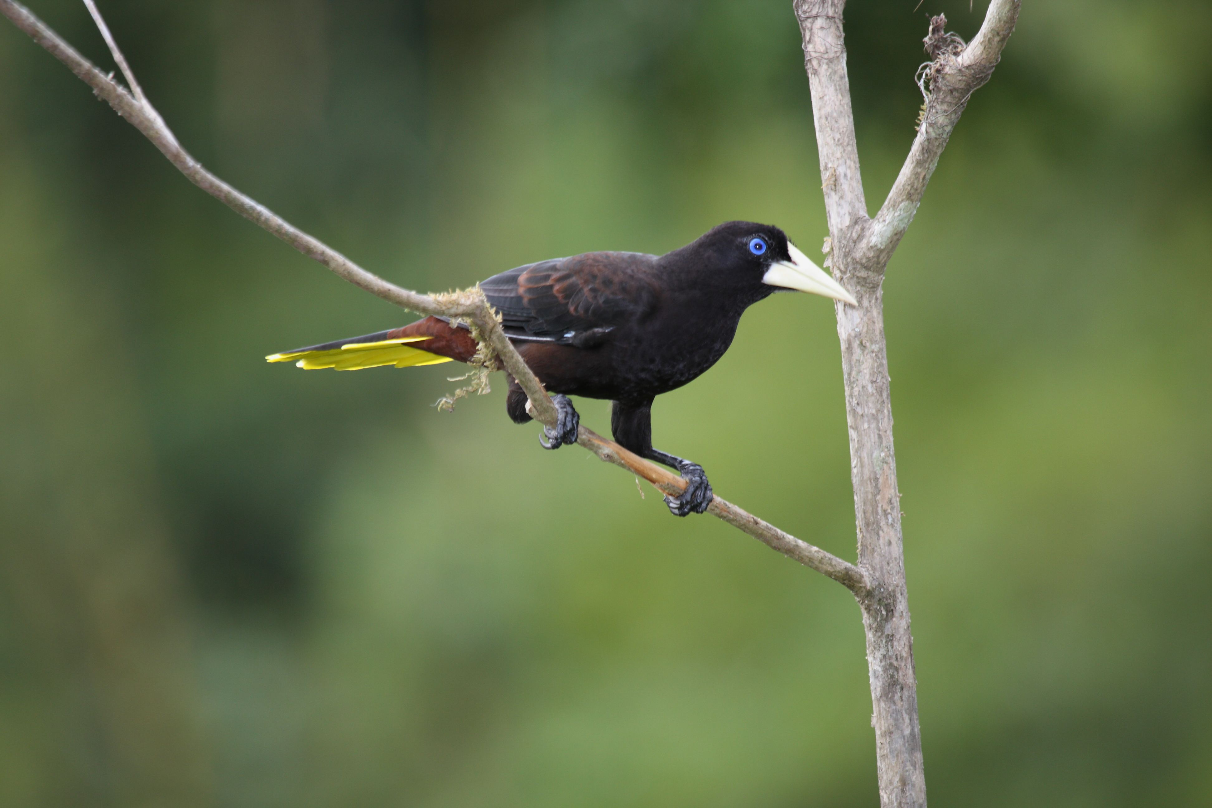 A Crested Oropendola in Trinidad.